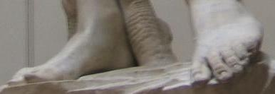 View of the feet in Michellangelo's David